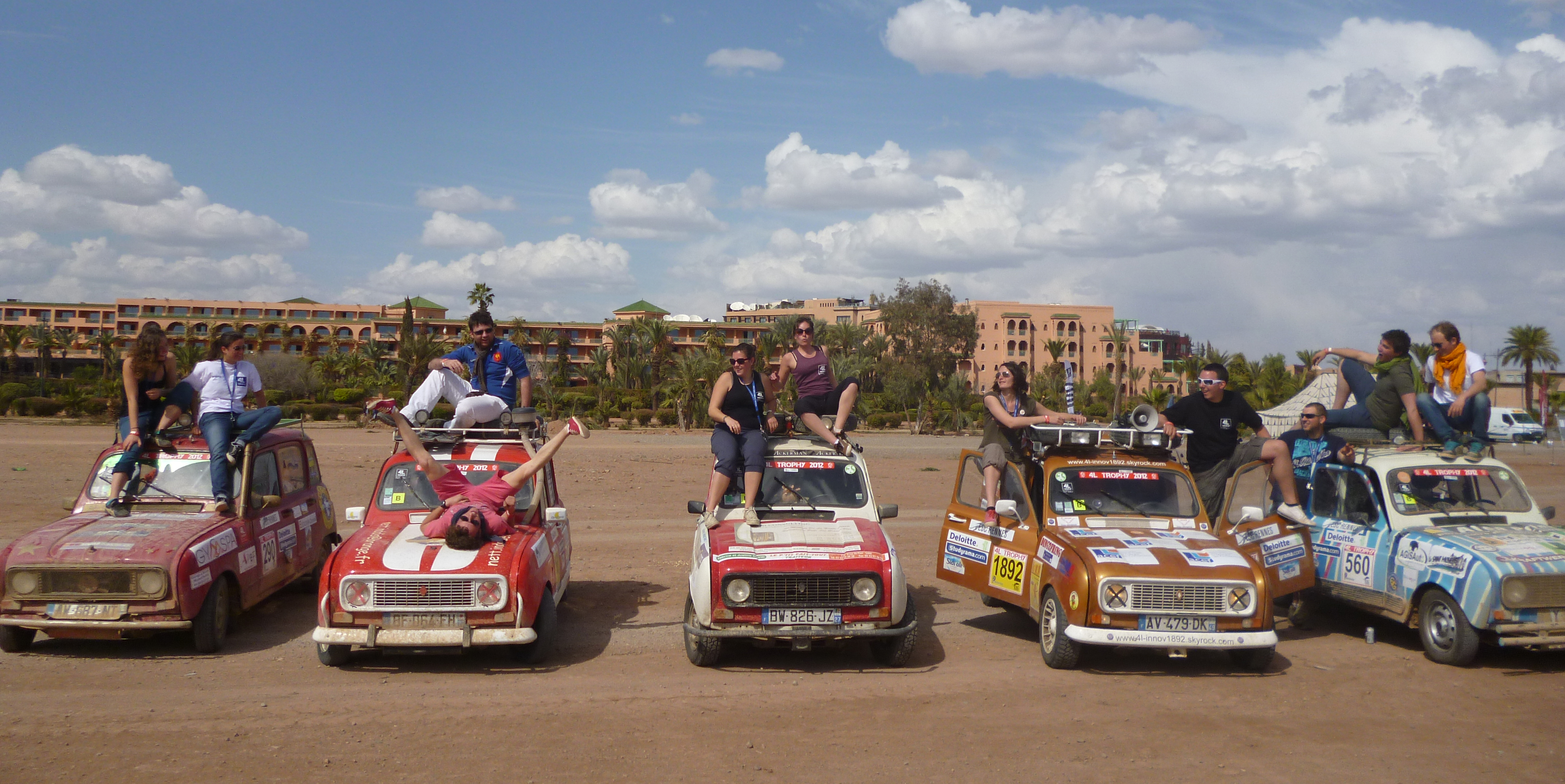 A group of racers arrives in Marrakesh